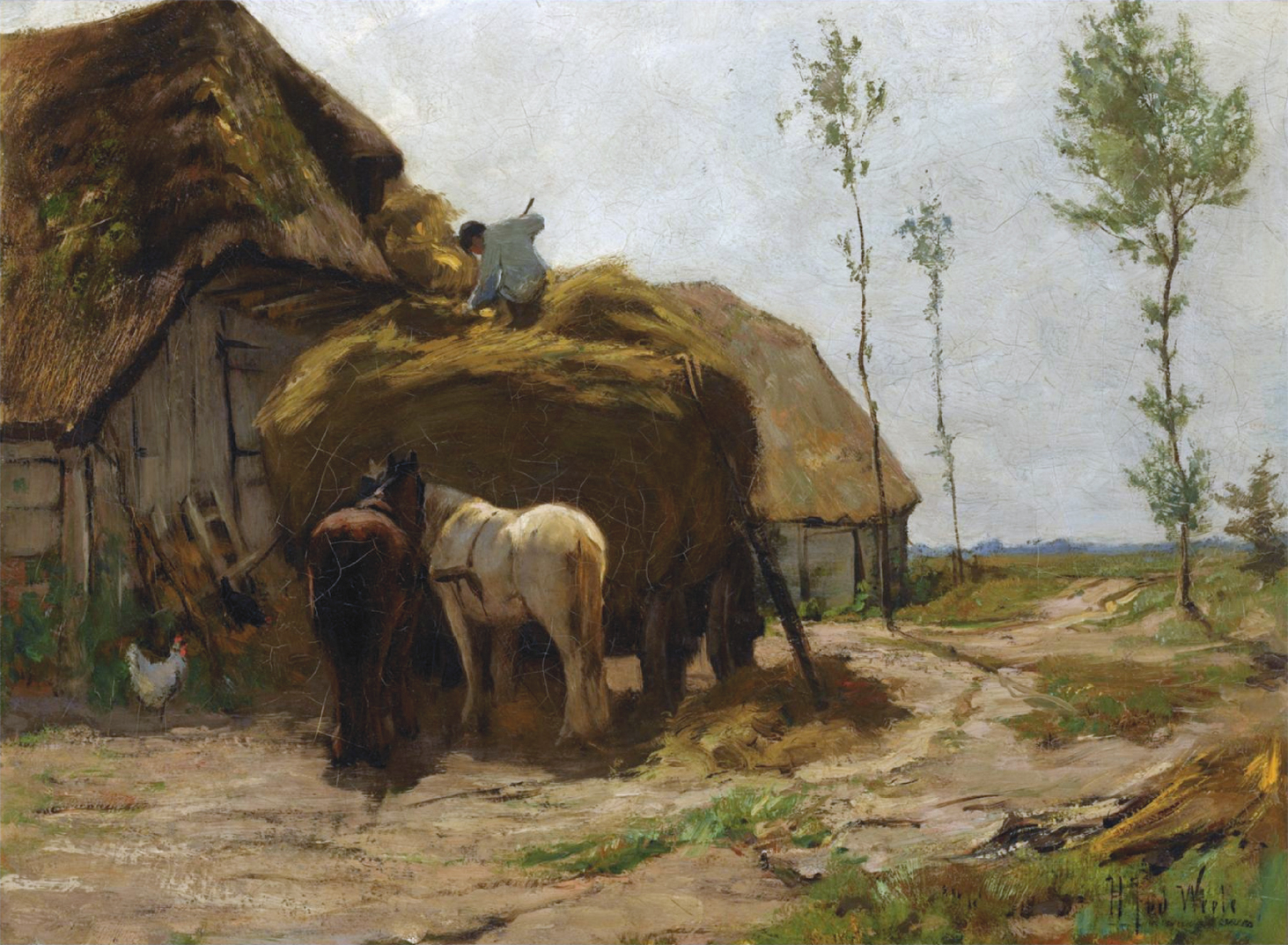 The provisioning of the hayloft 48.5 x 64.5 cm. signed l.r. oil on canvas